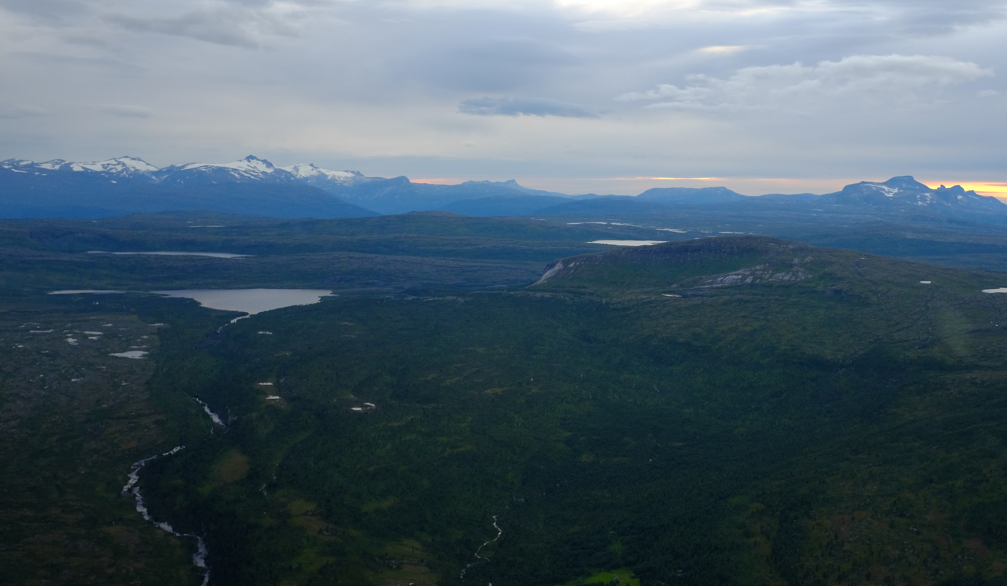 Russåga is a river in Saltdal municipality in Nordland, which flows eastward in Jarbrudalen from Kvitbergvatnet lake. By Russånes meetings Russåga Saltelva river, which empties into the Saltenfjorden at Rognan.